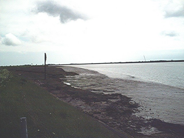 Saltings east of Tyle Barn Sluice. View across Roach towards Horseshoe Corner on Foulness